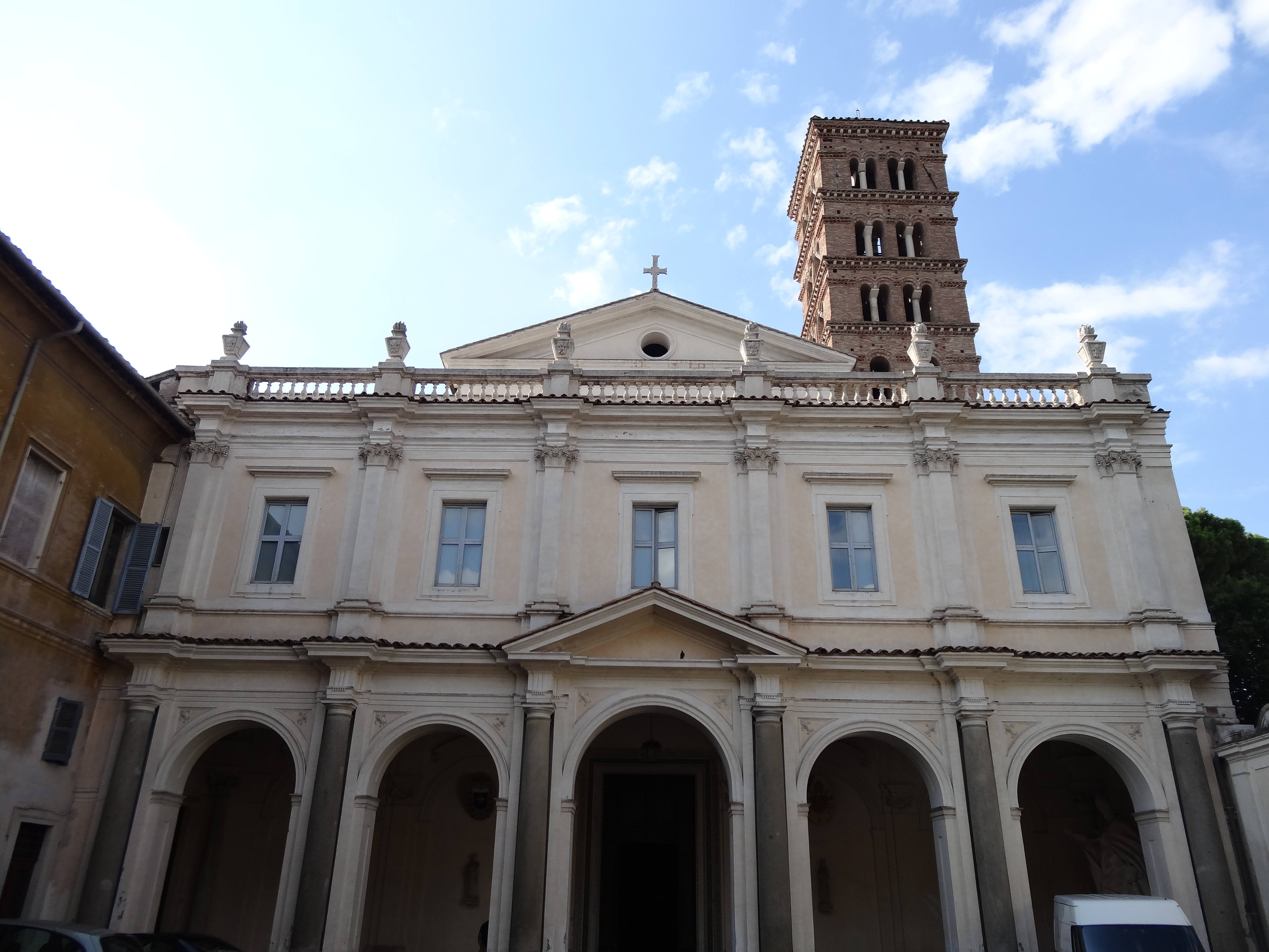 Sant'alessio church outside